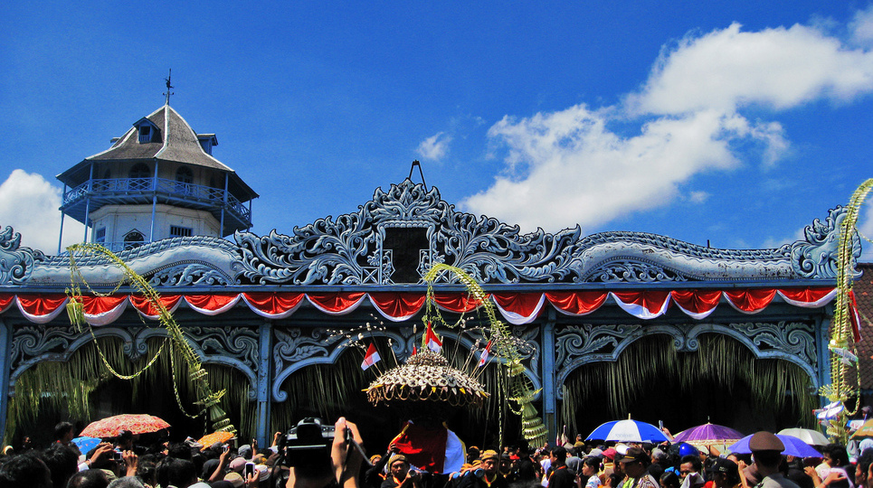 Grebeg Maulud is a traditional ceremony held by the royal court of Keraton Surakarta to commemorate the birth of Islamic holy messenger, Muhammad. This ceremony was first held during the reign of the Demak Dynasty dating back to the 15th century.